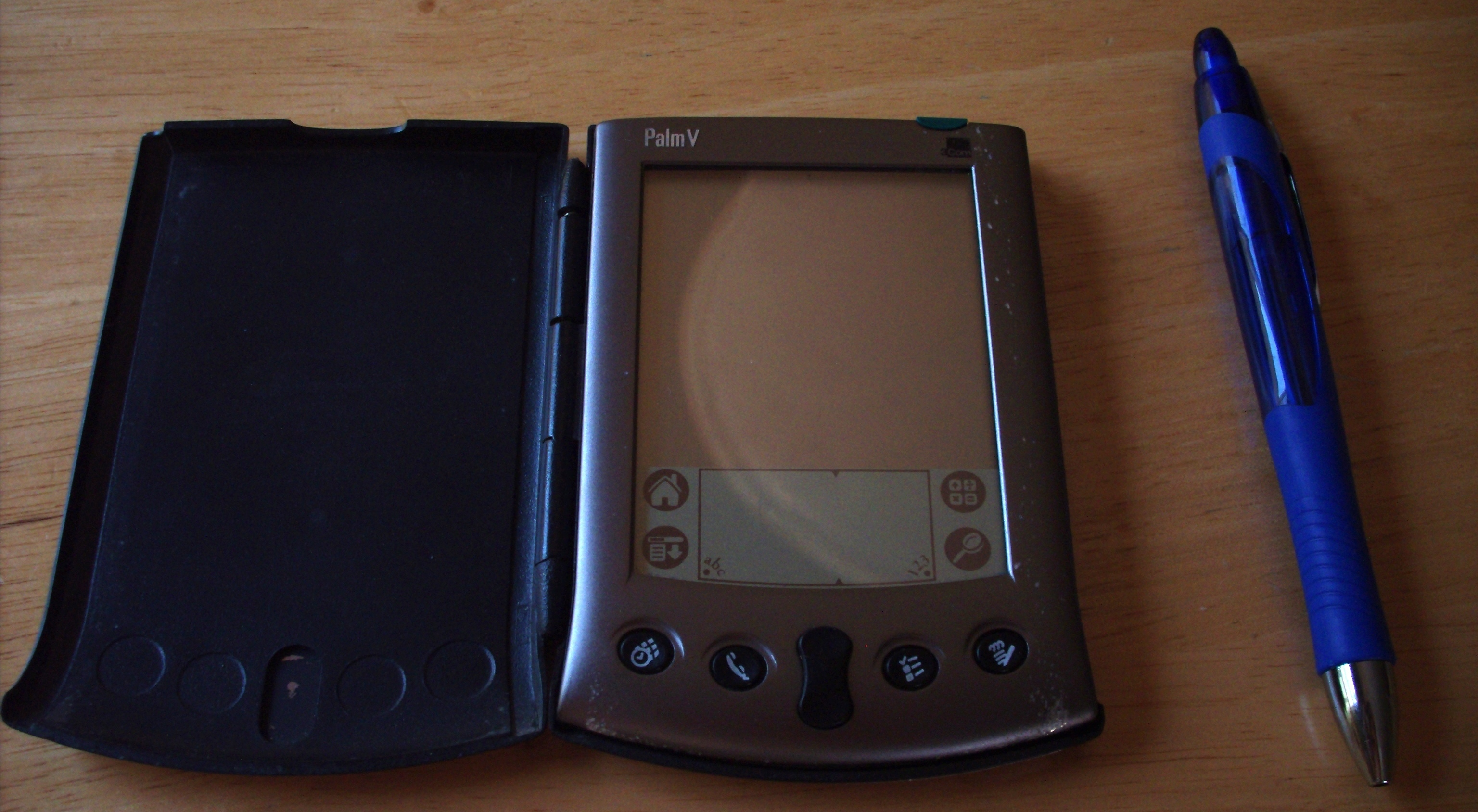 Pen is for size comparison